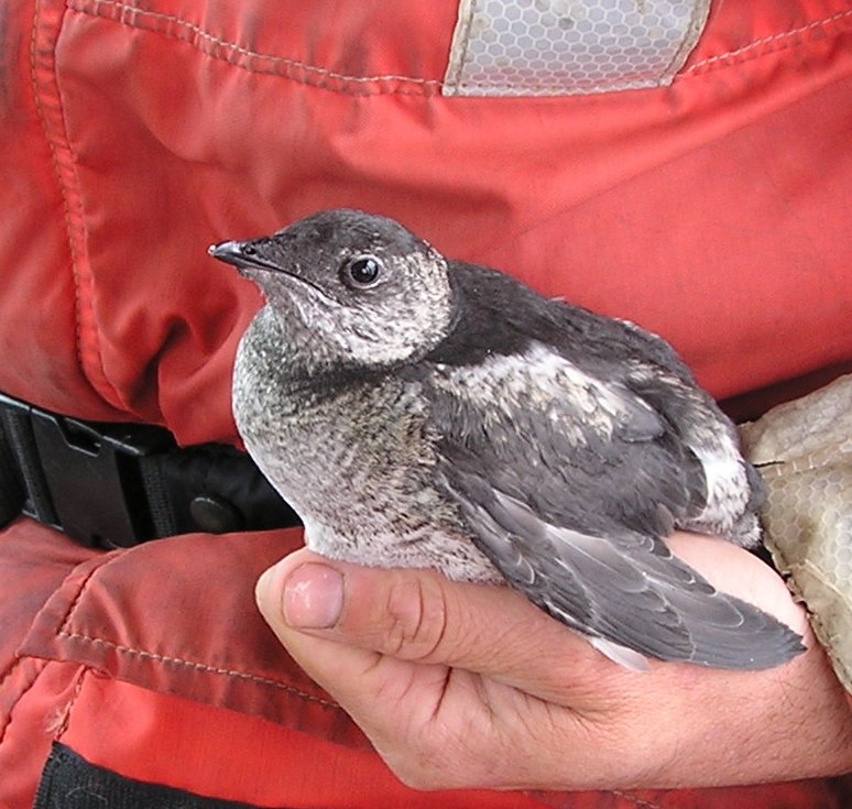 A juvenile Kittletz's murrelet (Brachyramphus brevirostris), caught on the water of Kachemak Bay, Alaska.first upload: Aug 8, 2005 - Wikpedia by User:Sabine's Sunbird